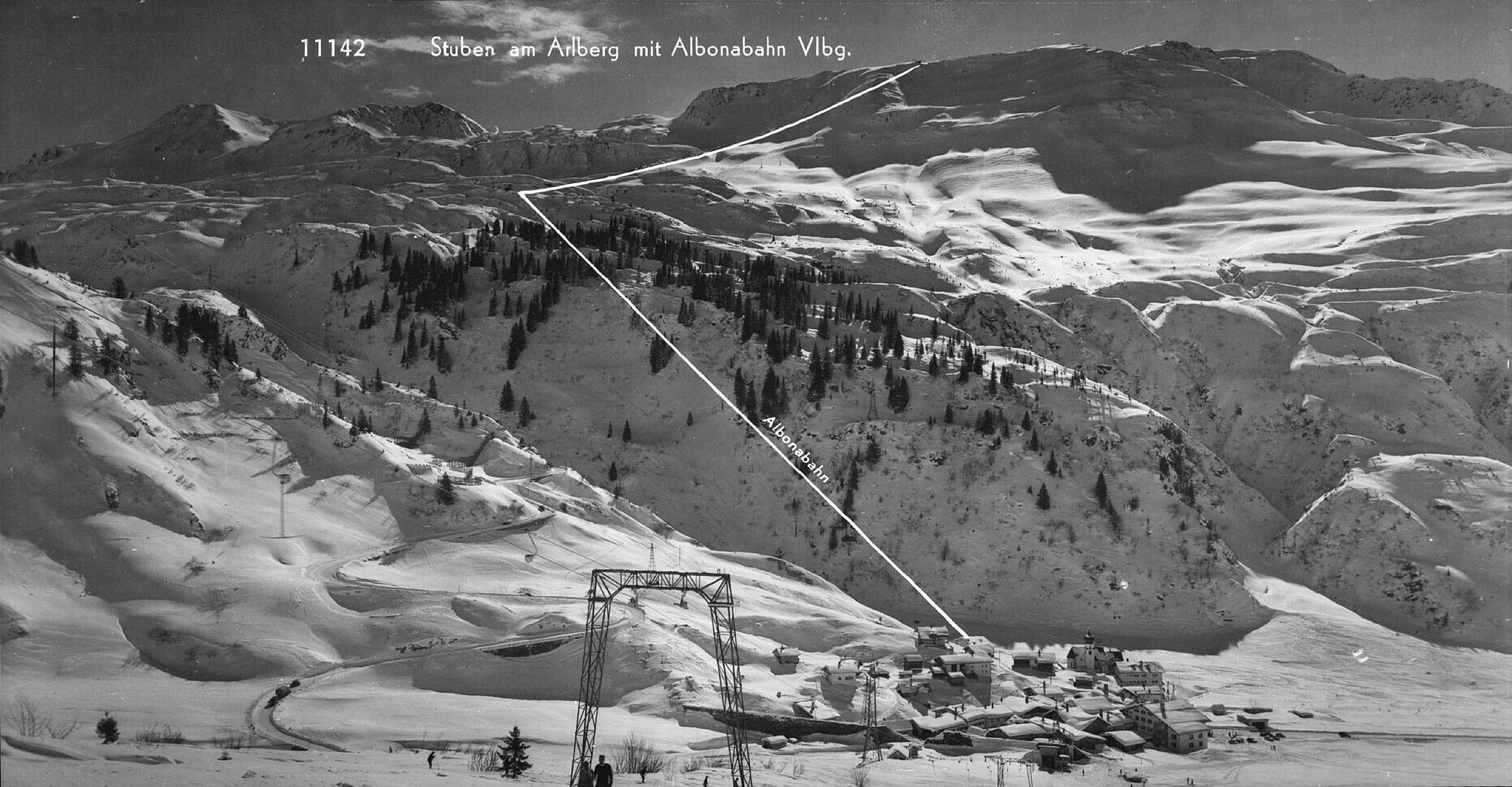 Route of the former Albonabahn I and II in Stuben, Vorarlberg, Austria. On the picture: a part of the Lechtaler Alps, the Arlberg, the Anger, the Arlbergstreet, the village Stuben, the Rauztobel, the mountain boundary Lechtaler Alps-Verwallgruppe, the Verwallgruppe, the Lange Boden, the Peischelkopf, the Knödelkopf, the Maroijoechl, the lower Maroijoch, the ski resort, Albonabahn, the Stubner Steilhang, the Albona, the Albonagrat, the Maroikoepfe and the Alpenkopf.